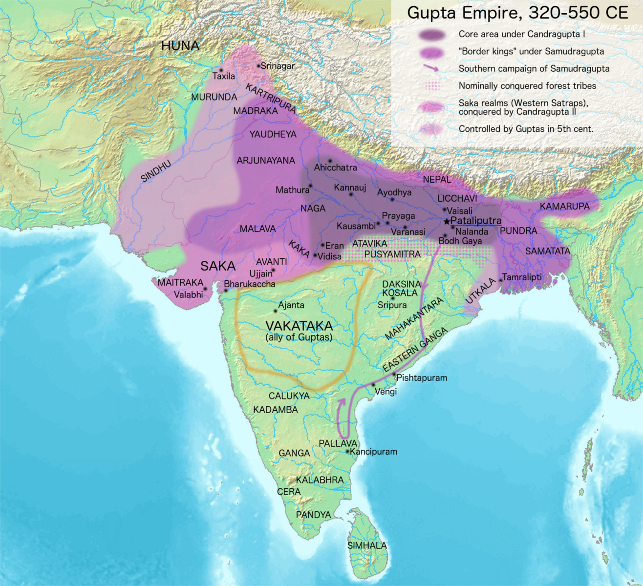 This is based on the map provided on p. 90 of Kulke, H.; Rothermund, D. (2004), A History of India, 4th, Routledge, ISBN 978-0-415-32920-0. Background from Made with GIMP